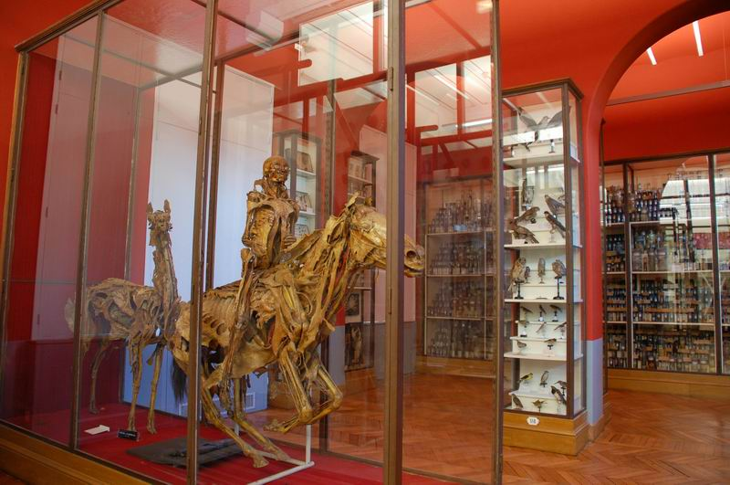 The rider by Honoré Fragonard (between 1766 and 1771), ine the cabinet of curiosities of the Fragonard Museum of the National Veterinary School of Alfort (France)